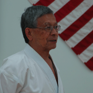 Photo of Sensei Terukuyi Okazaki on July 17, 2006. The photo was taken at the WWSKC (Western Washington Shotokan Karate Club) in Bellevue, WA (USA) during a seminar for ISKF (International Shotokan Karate Federation) students from Washington, Oregon, Vancouver B.C., and other states. Sensei Okazaki is watching students perform basic techniques (kihon).